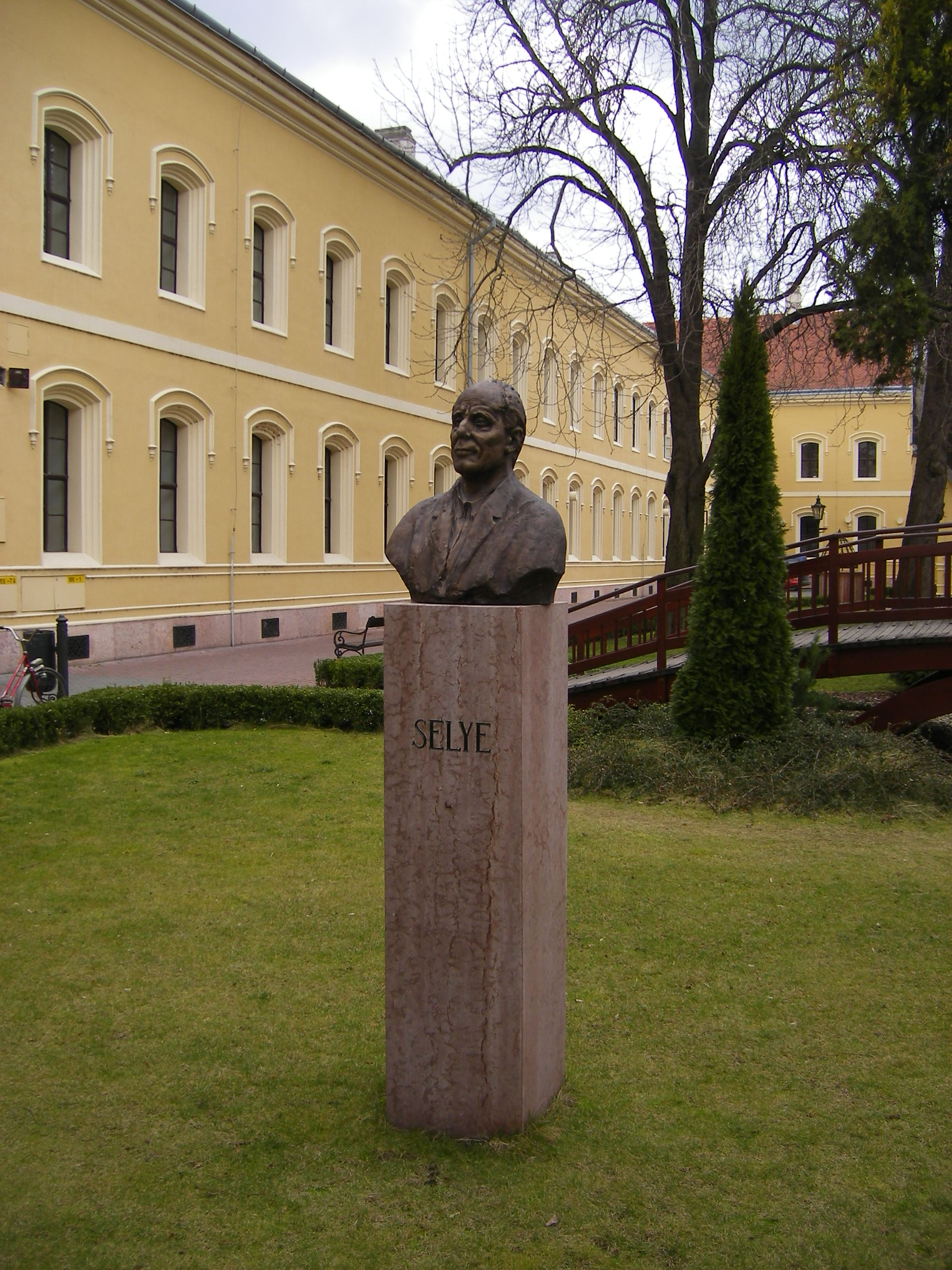 Bust of Hans Selye in Komárno (SK).